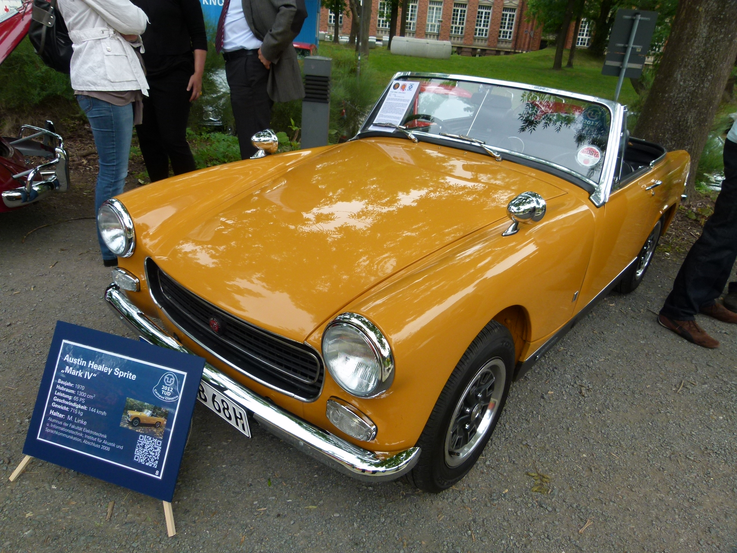 1970 Austin-Healey Sprite Mark IV at Dresden, Germany in 2012